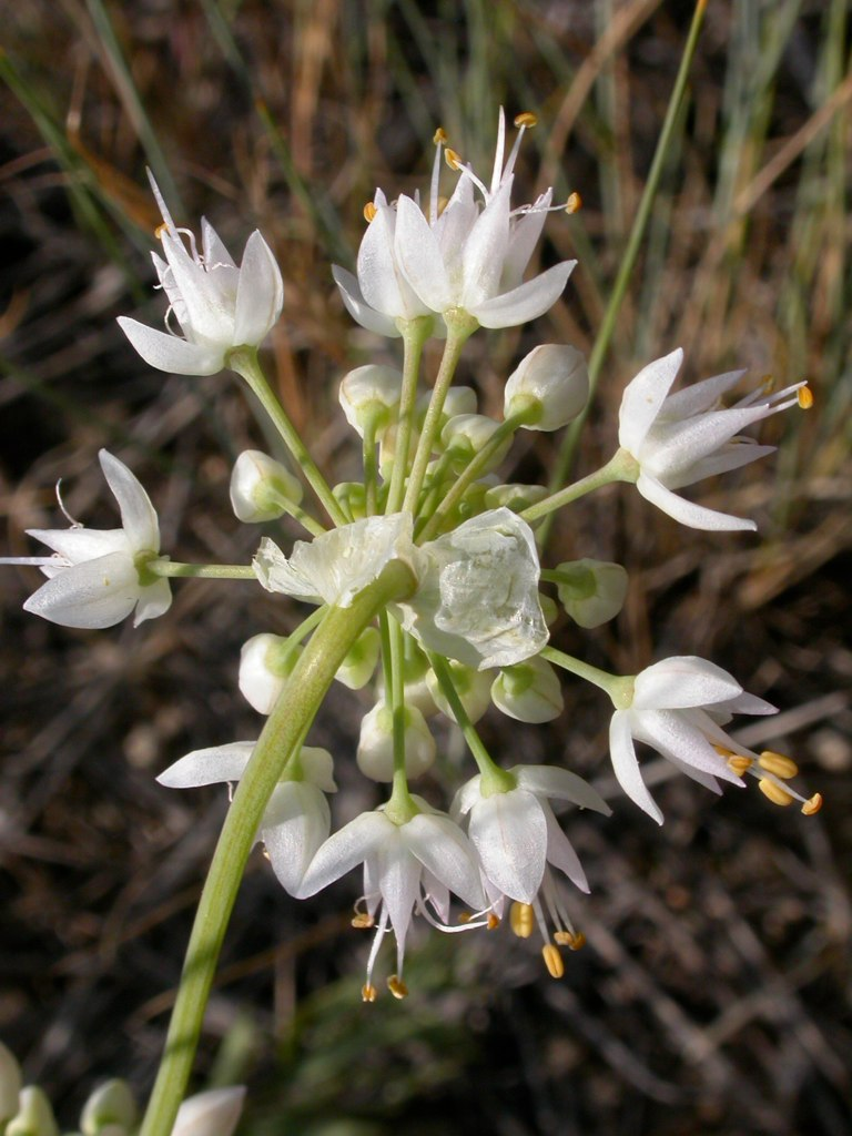 The peduncle nods just below the flowering head, thus rendering the common name nodding onion.